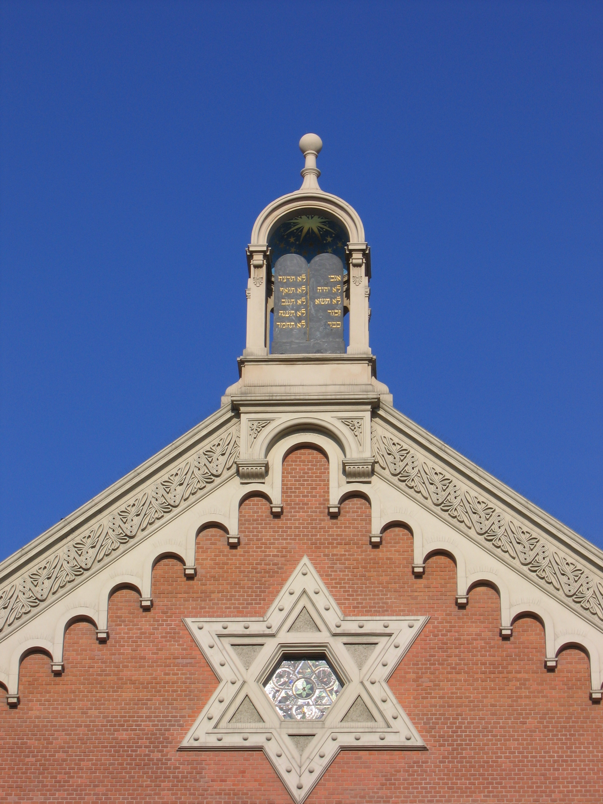 City of Plzeň, Czech Republic. Pilsen, Tschechien. The "great synagogue" in the city of Plzeň, Czech Republic. 3rd largest synagogue in the world. Synagoge in Pilsen, Tschechien.